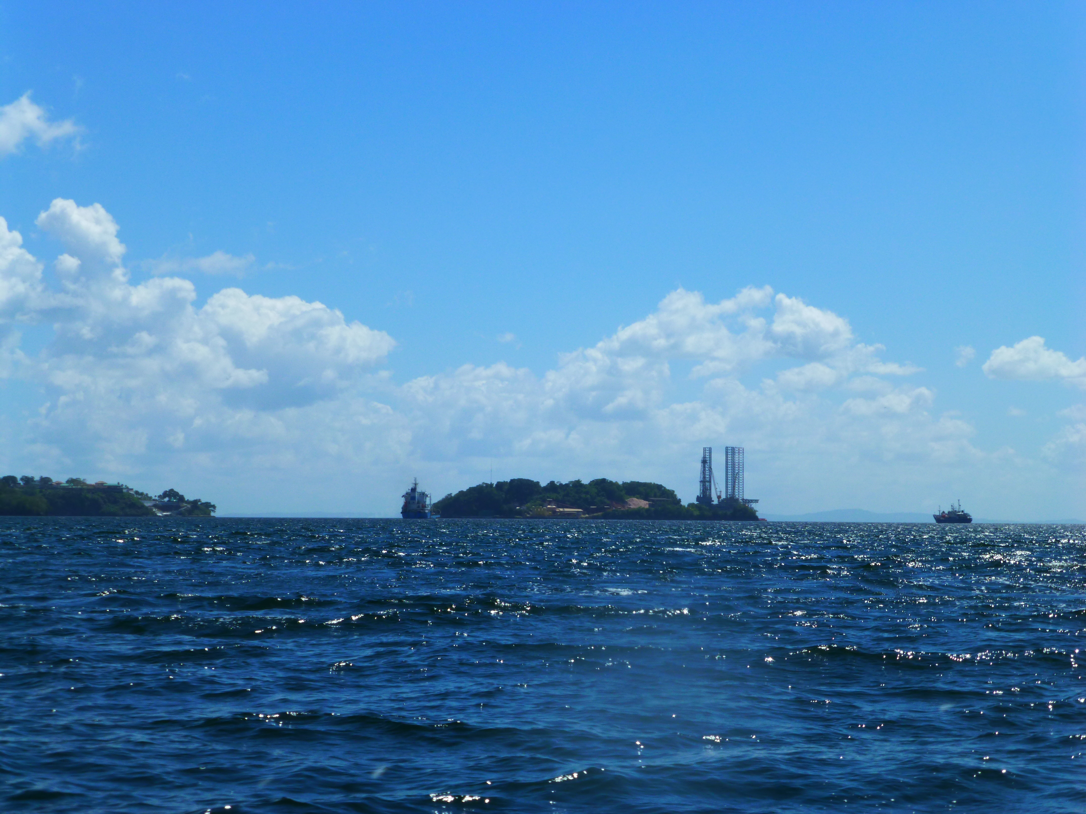 Carrera (left) and Cronstadt Island (right), Chaguaramas, Trinidad.